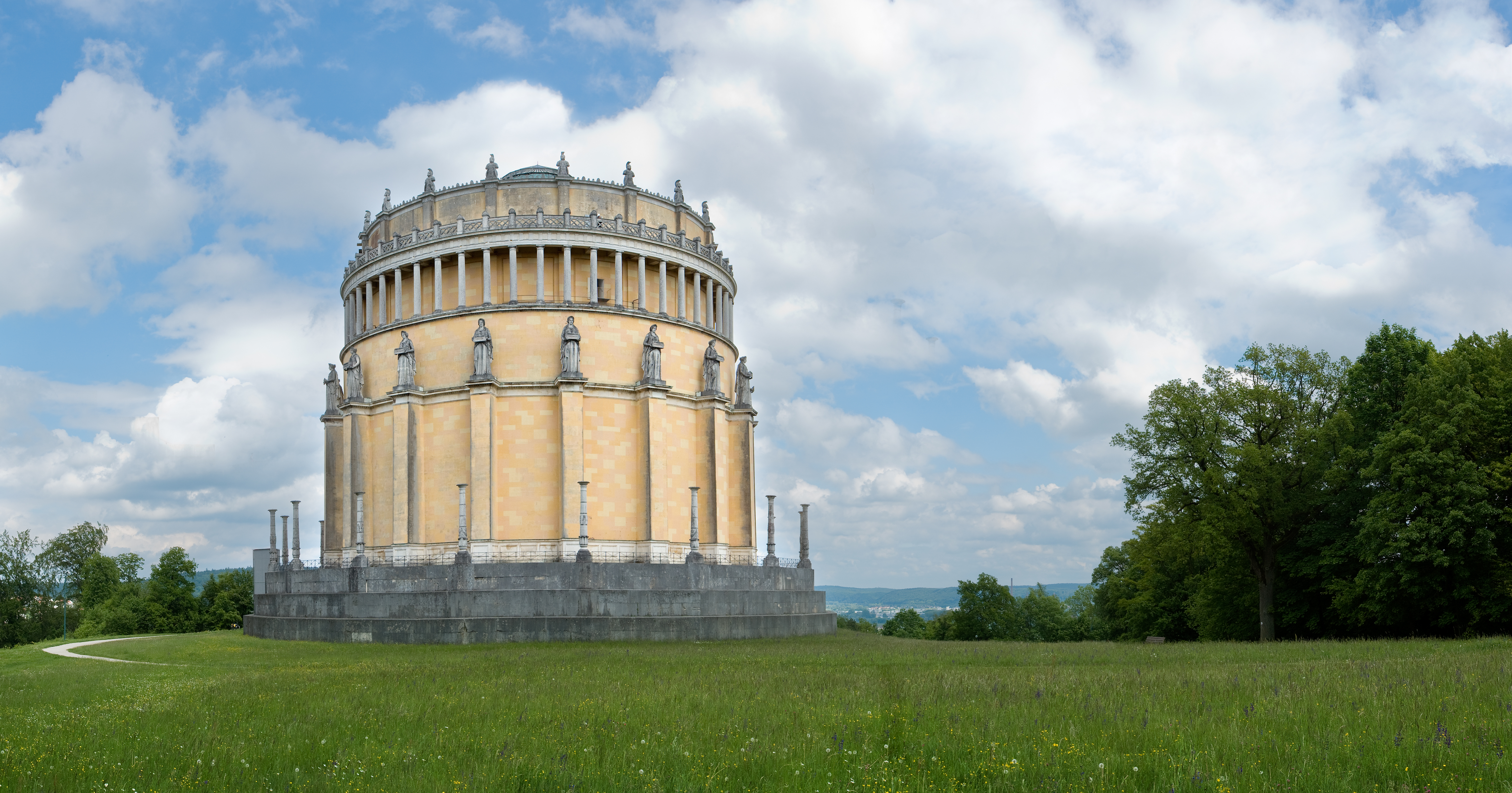 Befreiungshalle ("Hall of Liberation") upon Mount Michelsberg above the city of Kelheim in Bavaria, Germany